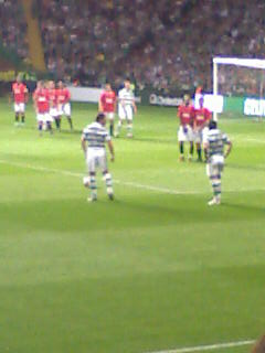 Alan Thompson and Lubomir Moravcik preparing to tak a free-kick at the John Kennedy testmonial match